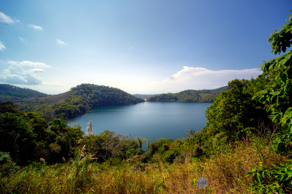 NongFa Lake, Laos